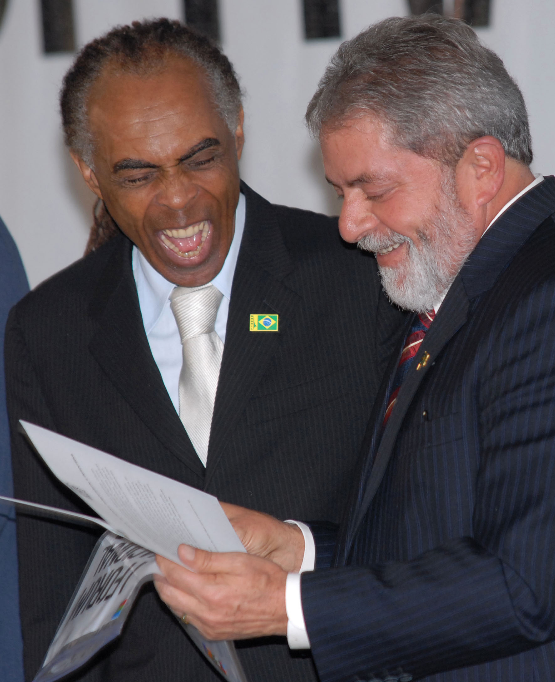 Current Brazilian President Luiz Inácio Lula da Silva and Minister of Culture Gilberto Gil in Brasília.